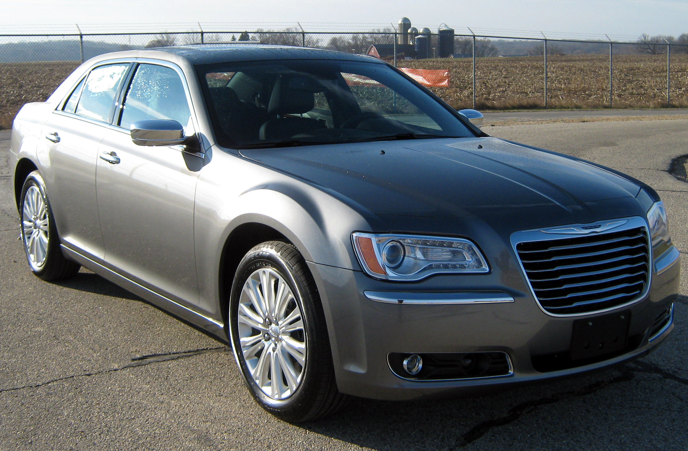 2012 Chrysler 300 photographed in USA.